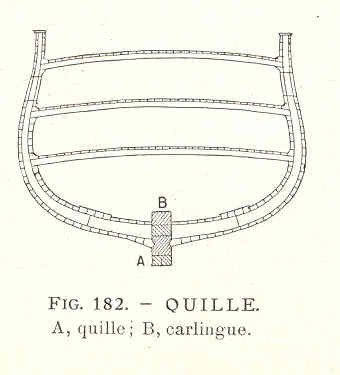 a, quille; b, carlingue Subject: Shipbuilding, Keels Tag: Vessels